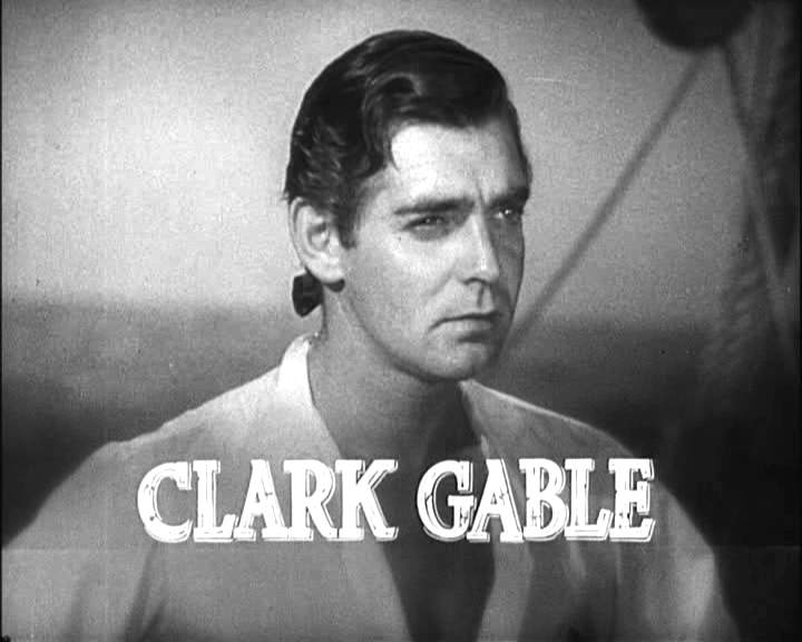 Cropped screenshot of Clark Gable from the trailer for the film Mutiny on the Bounty.